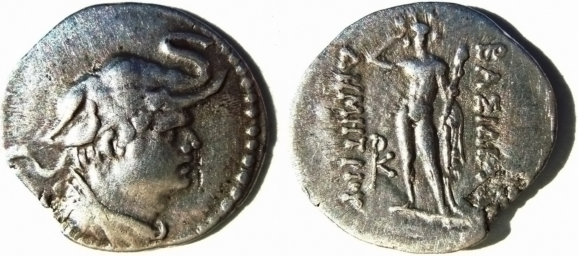 Silver obol of king Demetrius, shown with elephant headgear.